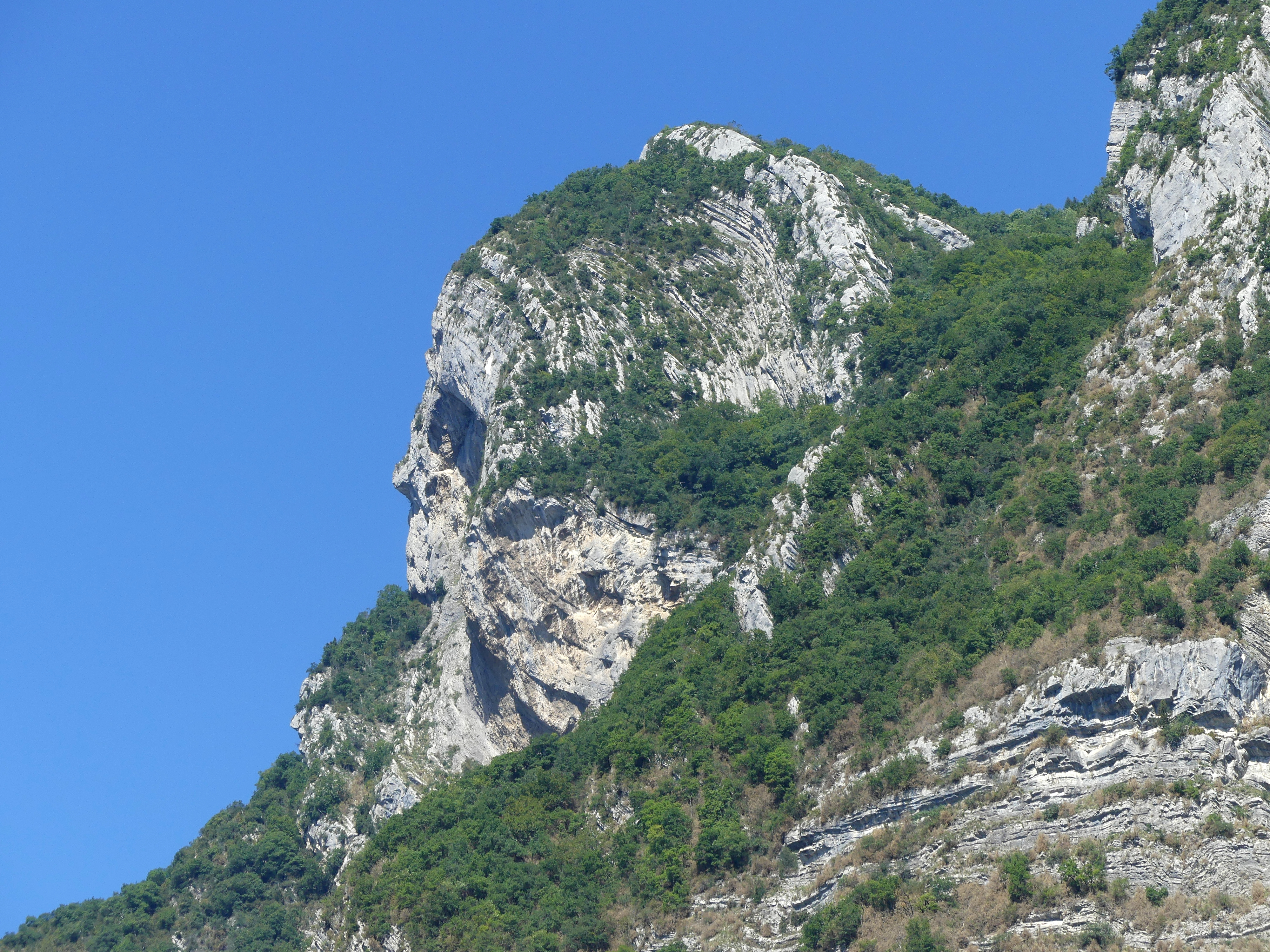 Sight, from Montmélian, of La Savoyarde mountain, which means 'The Savoyan woman' because of its shape looking like a woman face, in Savoie, France.